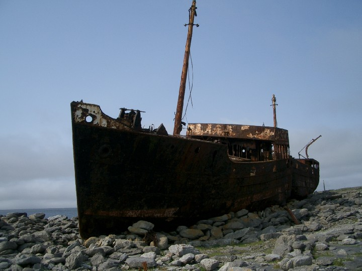 Aran Islands, a picture of a ship wreck on the coast Inisheer